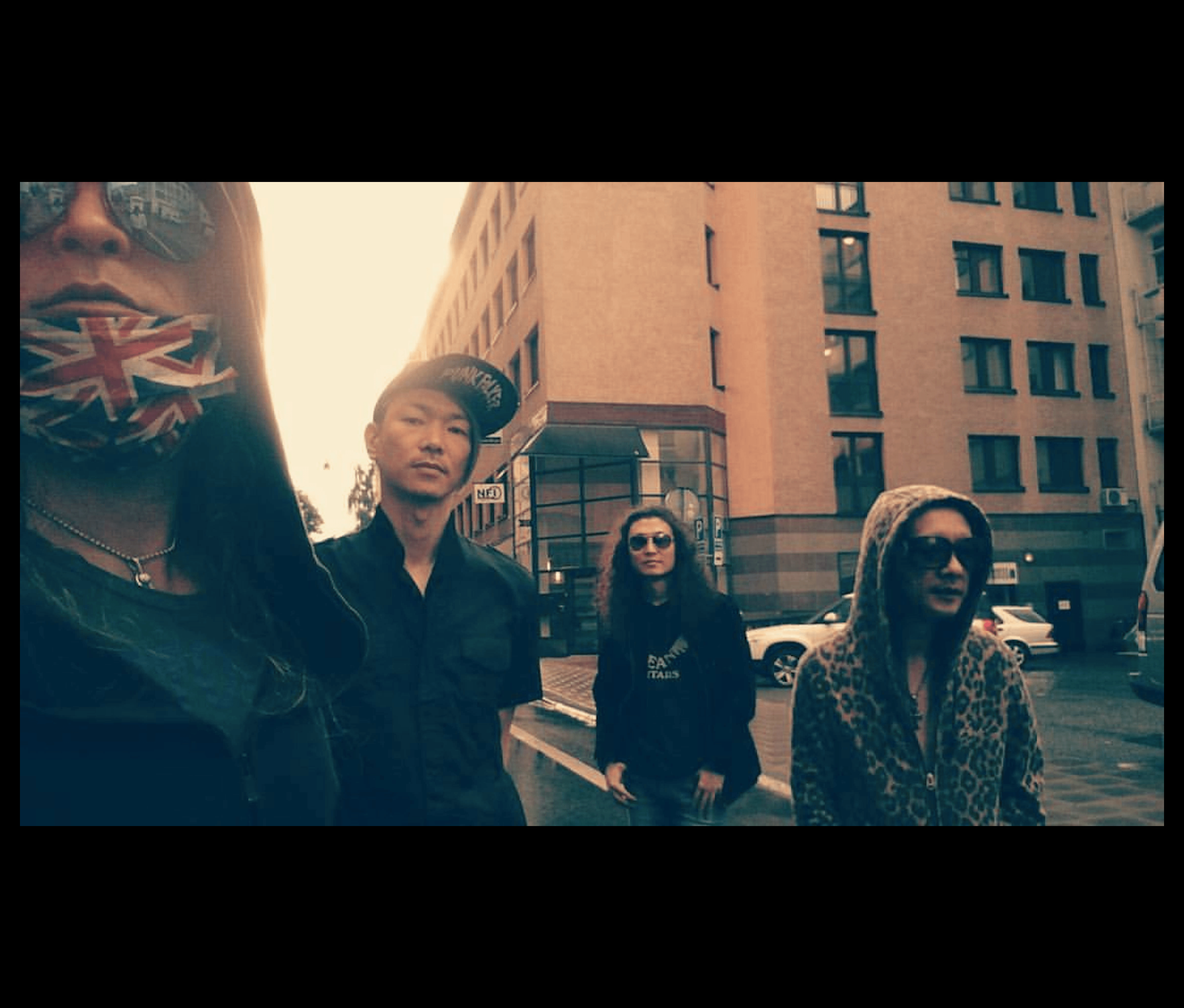 JIU〜慈雨 member